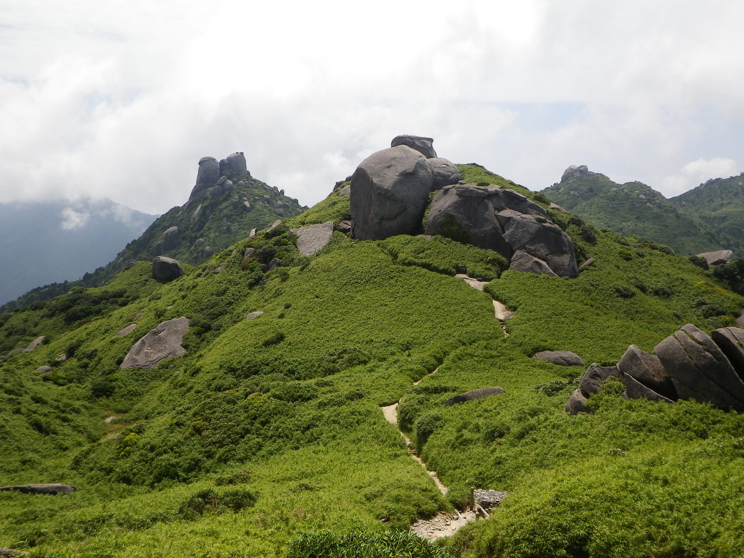 Mt.Kuriodake